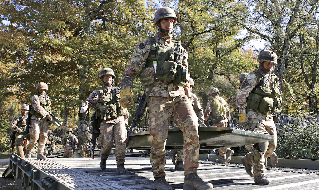 Italian Army - soldiers of the 8th Paratroopers Engineer Regiment "Folgore" build a Medium Girder Bridge during an exercise